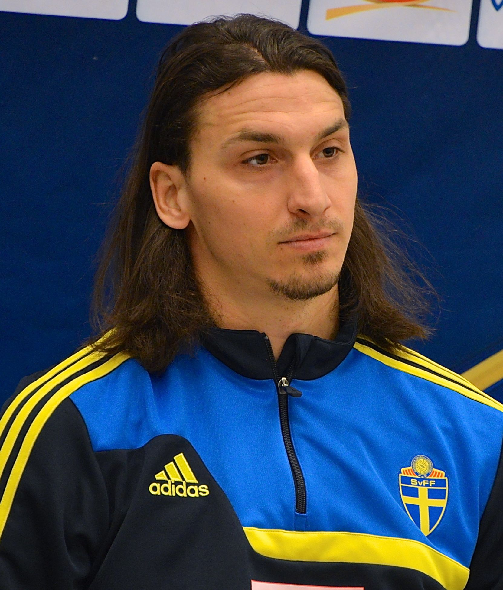 Zlatan Ibrahimović at a press conference March 21, 2013 before the qualifying match against Ireland.